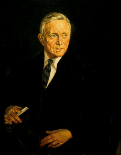 The official portrait of Justice William O. "Wild Bill" Douglas